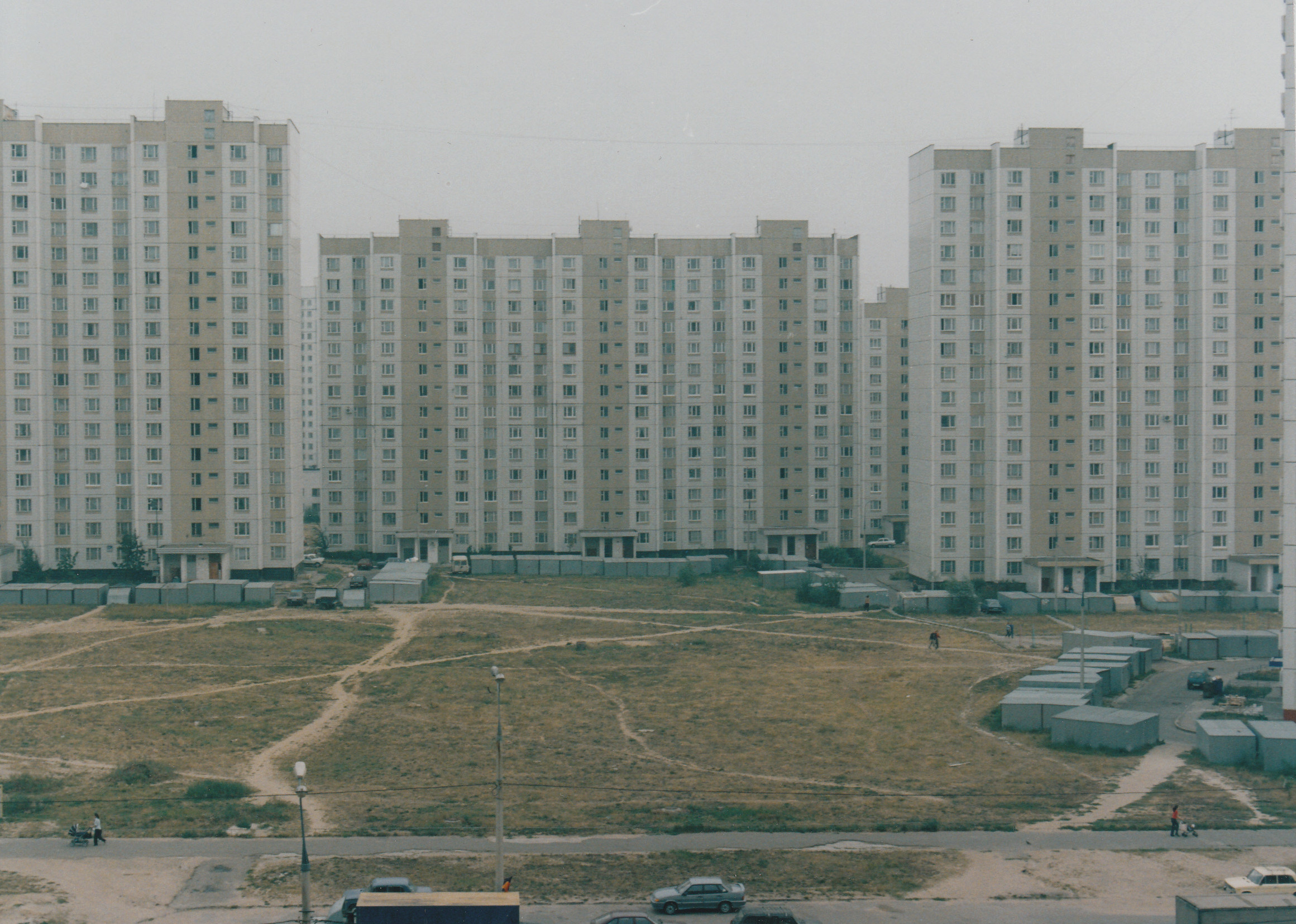 Moscow. Standard buildings on Novokosinskaya street, the 1980s. Photo of the 2000s